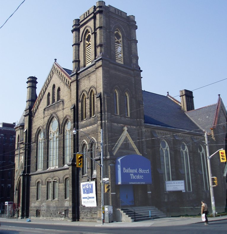 Bathurst Street Theatre. Taken by SimonP in April 2005